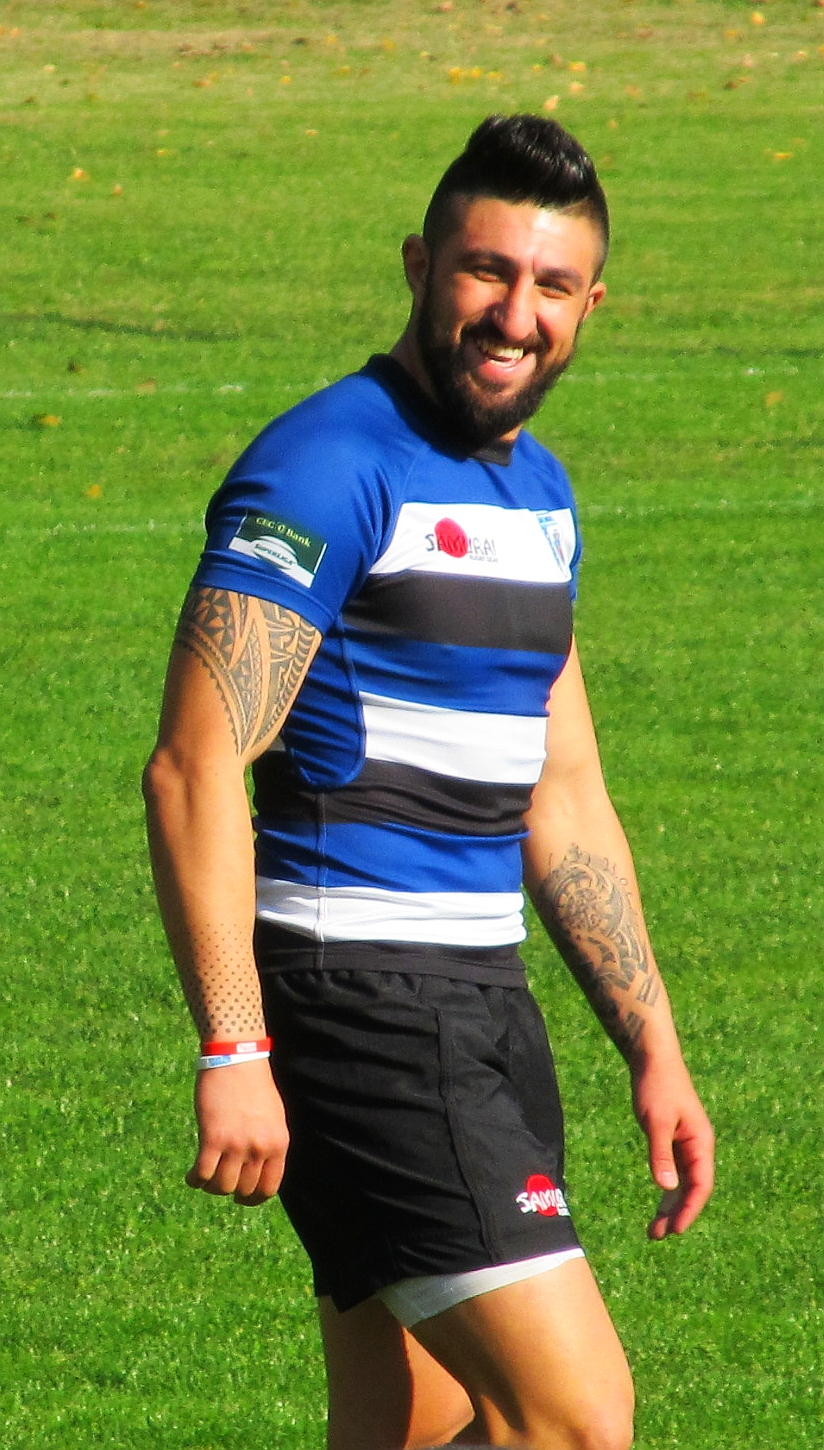 Romanian Rugby Union player Florin Vlaicu smiles during a match between his team, CSM București, and rivals CSM Baia Mare.